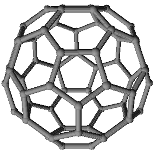 C60 molecule displayed from ChemScetch program